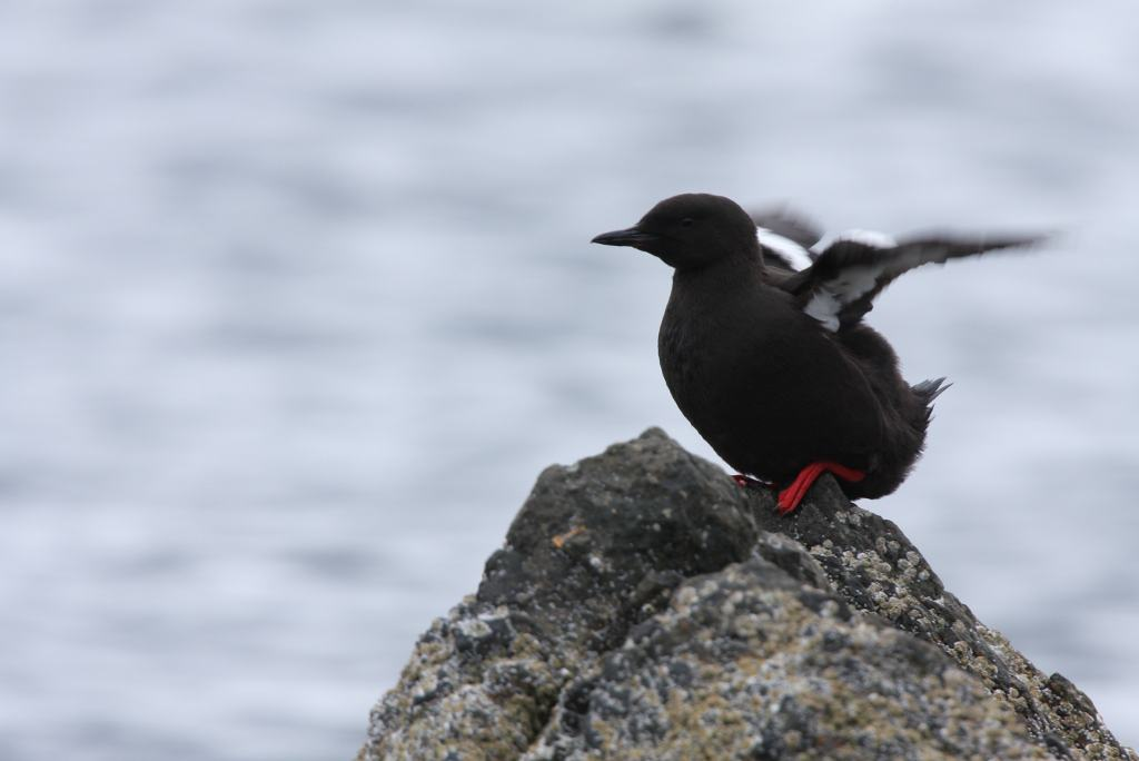 black guillemot